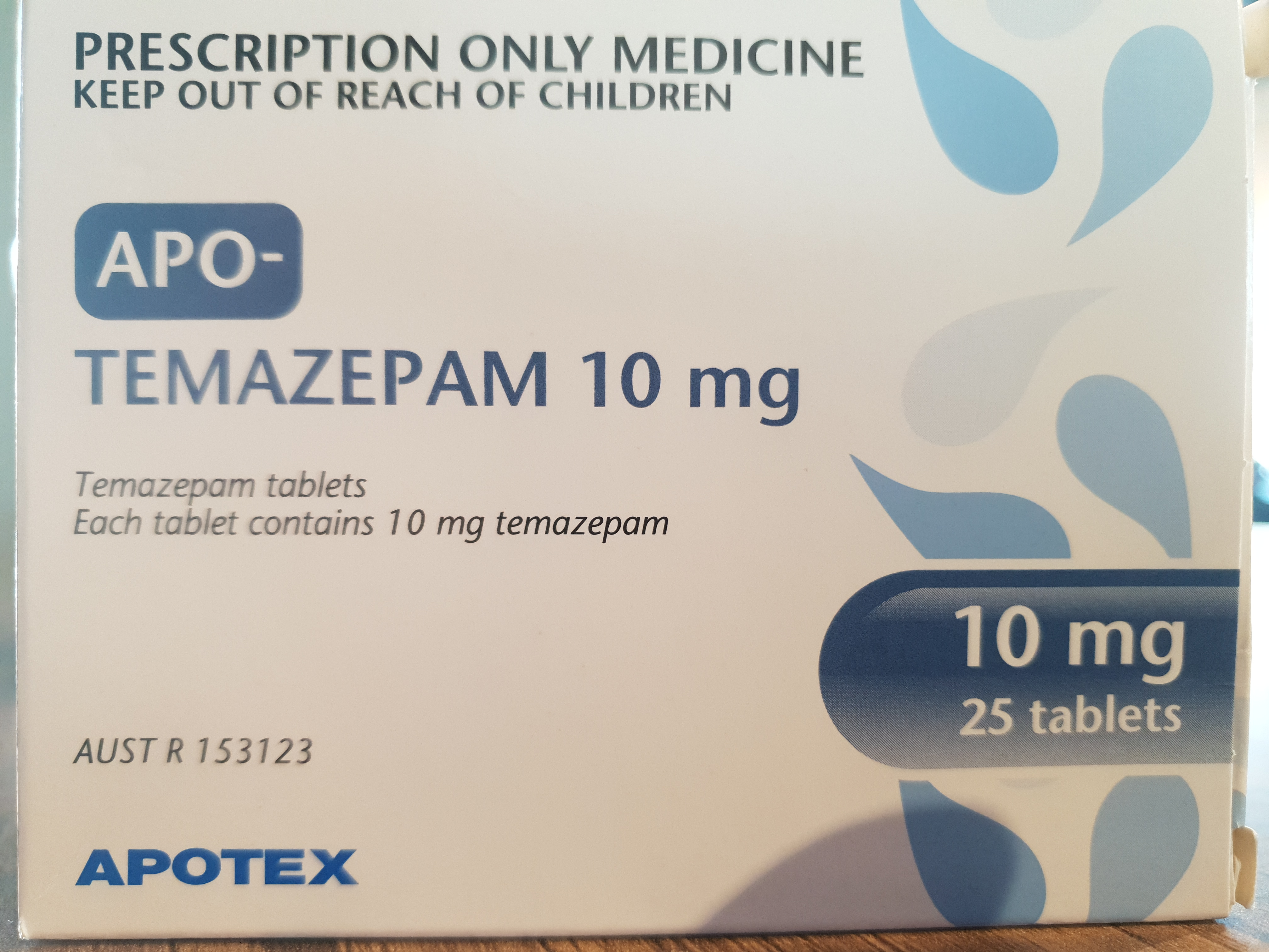 Apro Temaz